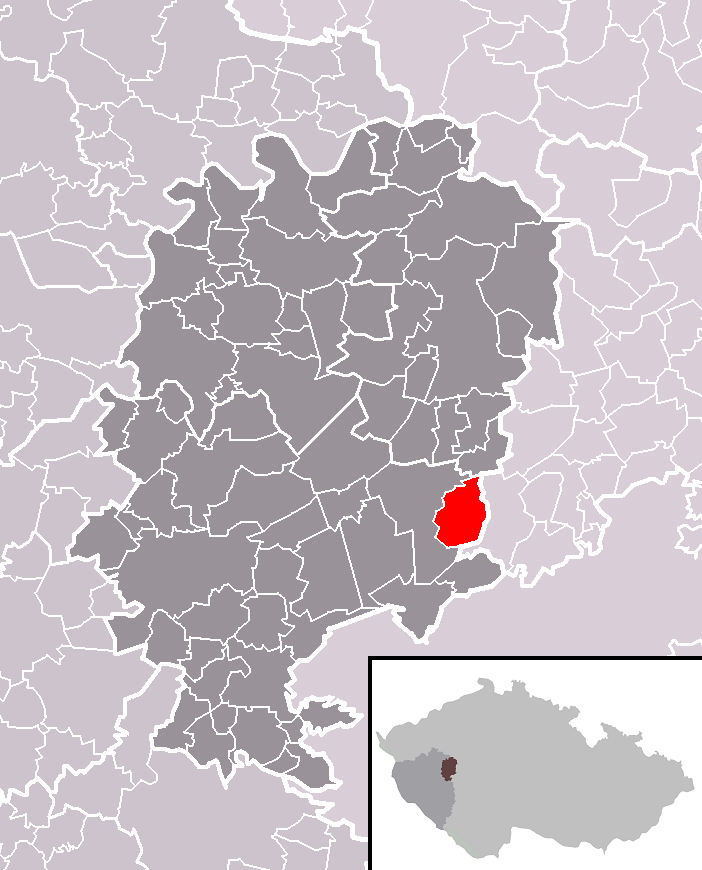 Location of Cheznovice municipality within Rokycany District and within identical administrative area of Rokycany as a Municipality with Extended Competence.